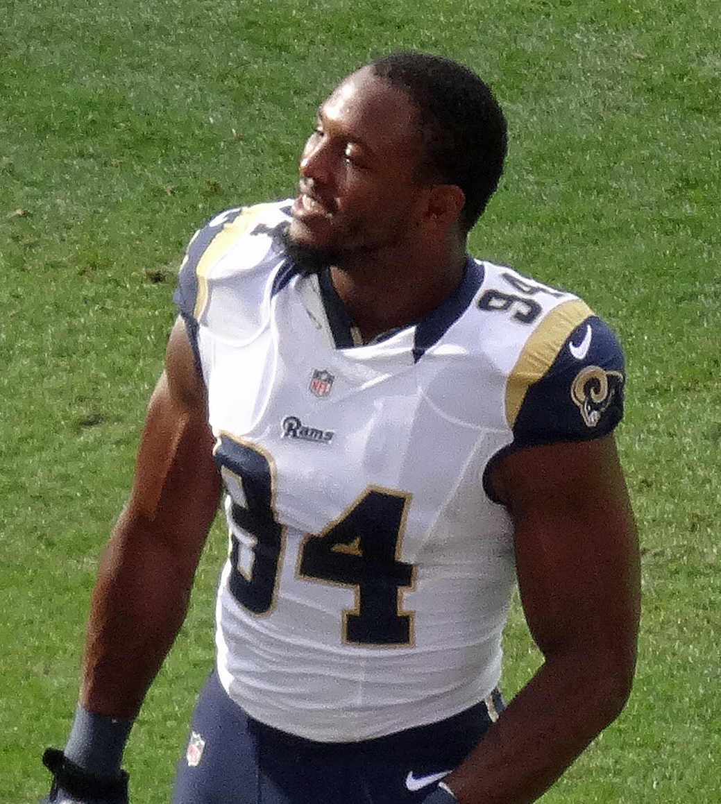 Robert Quinn, a player on the National Football League.